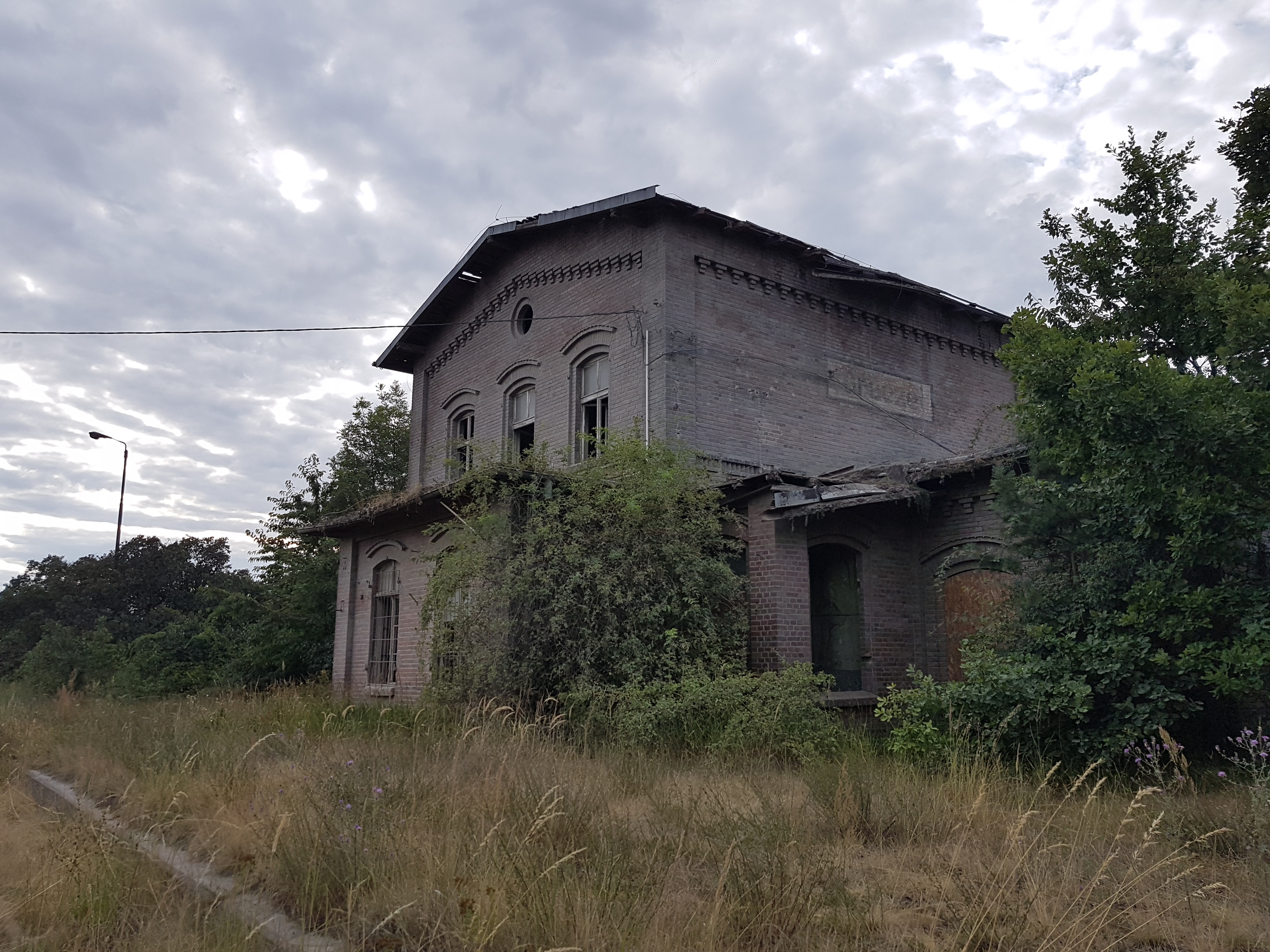 Train station in Gracze, near Opole, Poland